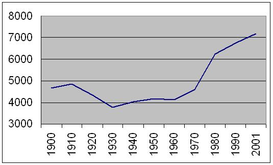 Population chart for the municipality of Lyngdal for the years from 1800 to 2001.